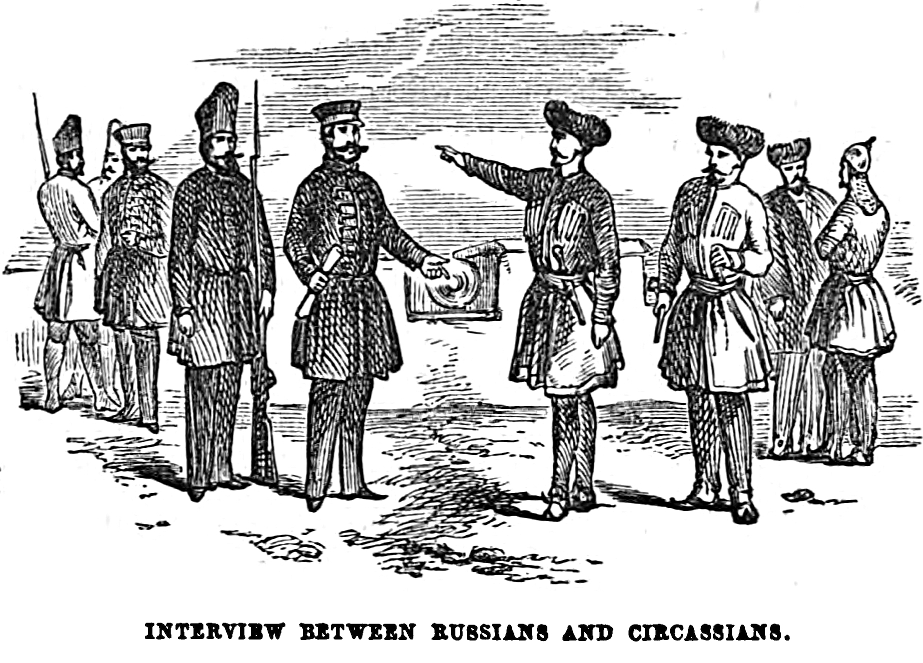 Edmund Spencer, Turkey, Russia, the Black Sea, and Circassia